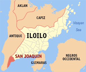 Map of Iloilo showing the location of San Joaquin